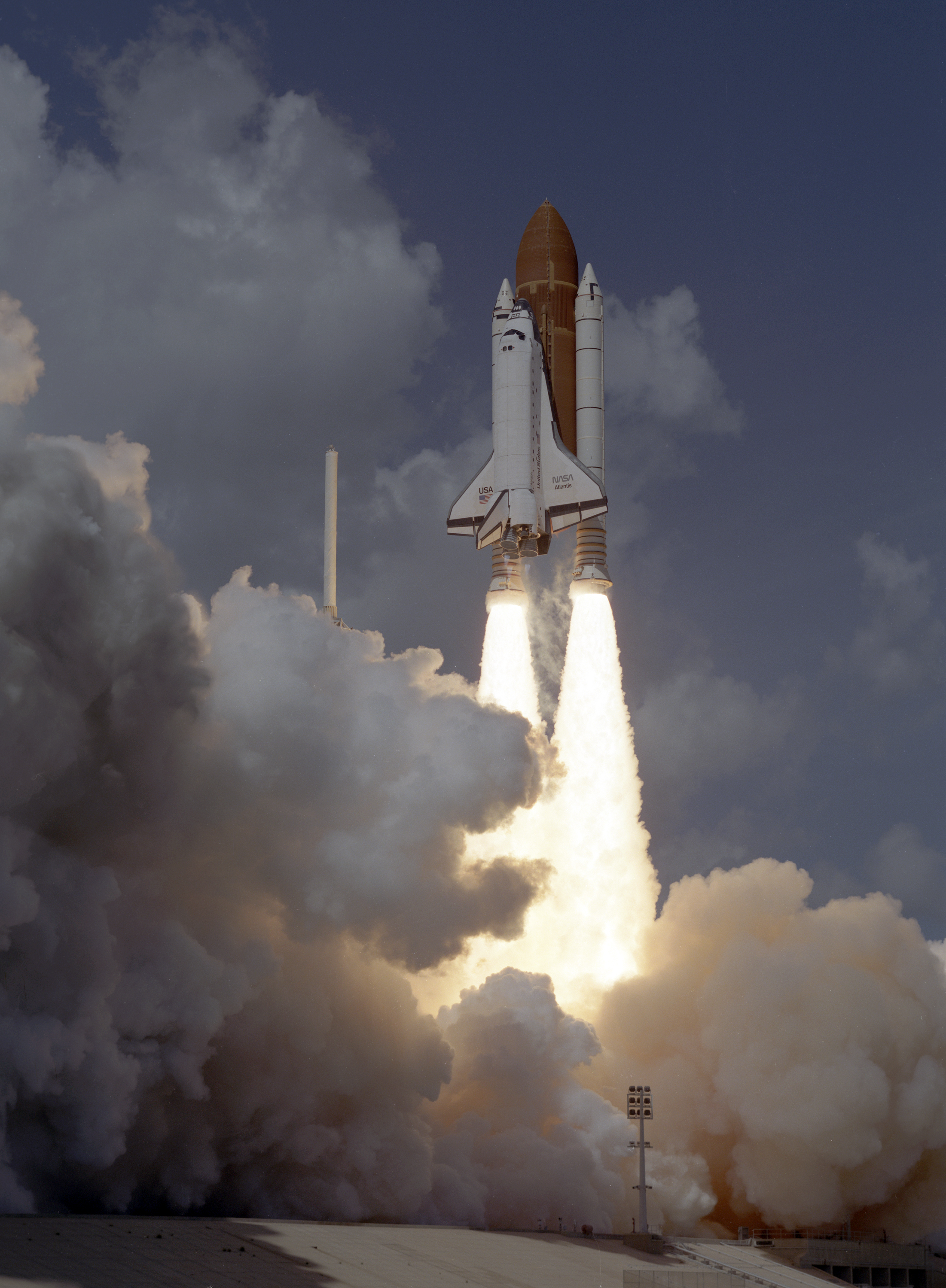 Liftoff of STS-34 from LC 39B (front view).